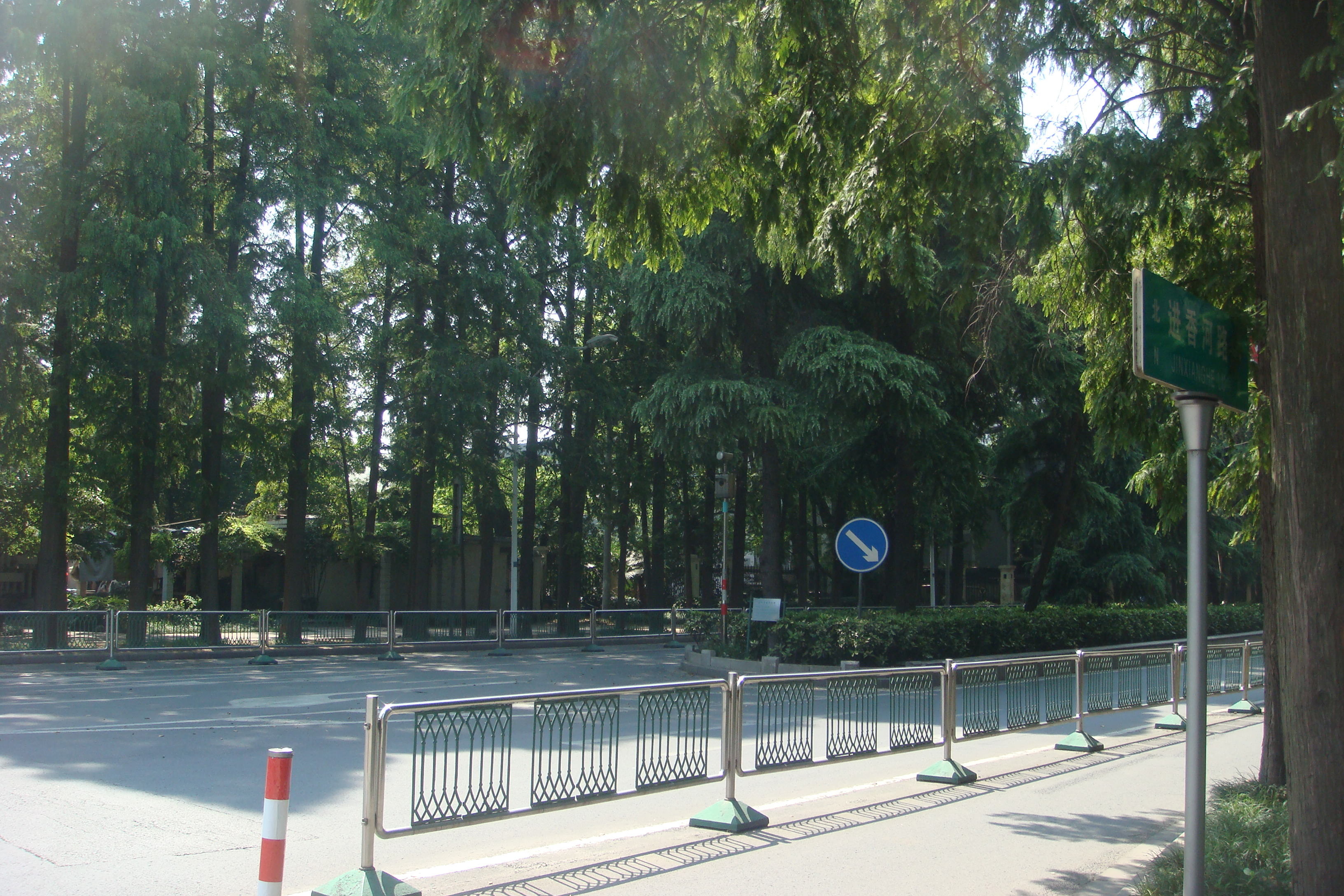 201308 Jinxianghe Road, Nanjing. Covered by huge size of trees.